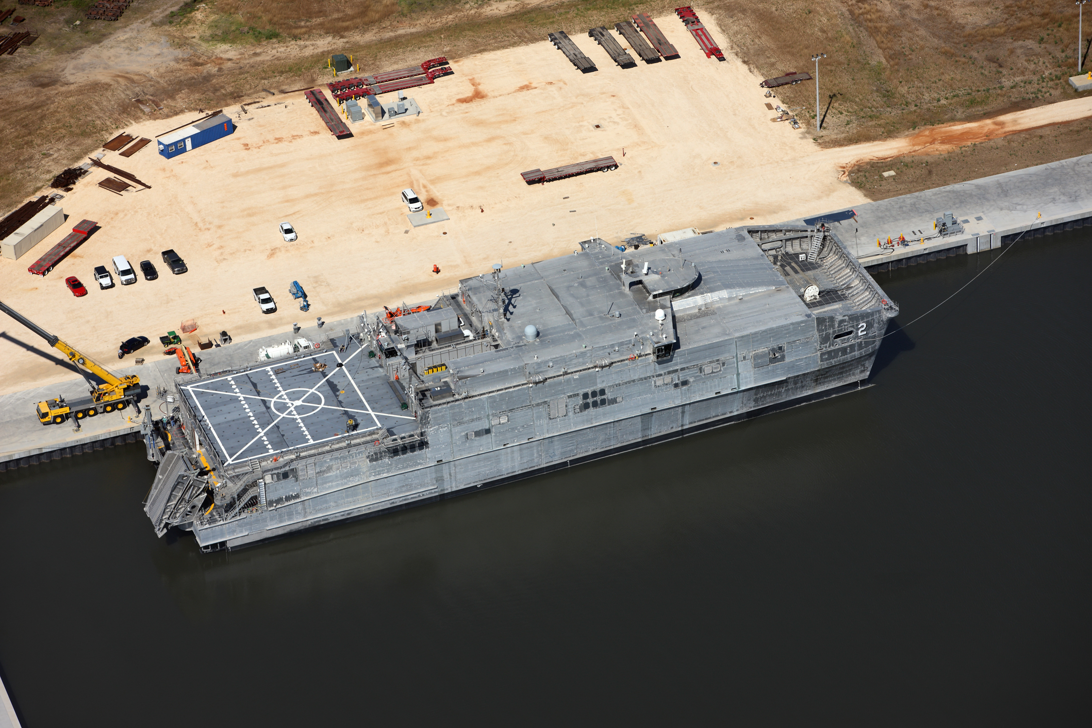 MOBILE, Ala. (June 5, 2013) The joint high-speed vessel USNS Choctaw County (JHSV 2) awaits delivery at the Austal USA vessel completion yard. Choctaw County is the second of 10 joint high-speed vessels designed for rapid intra-theater transportation of troops and military equipment. (U.S. Navy photo Courtesy Austal/Released) 130605-O-ZZ999-001 Join the conversation navylive.dodlive.mil